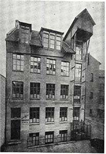 public